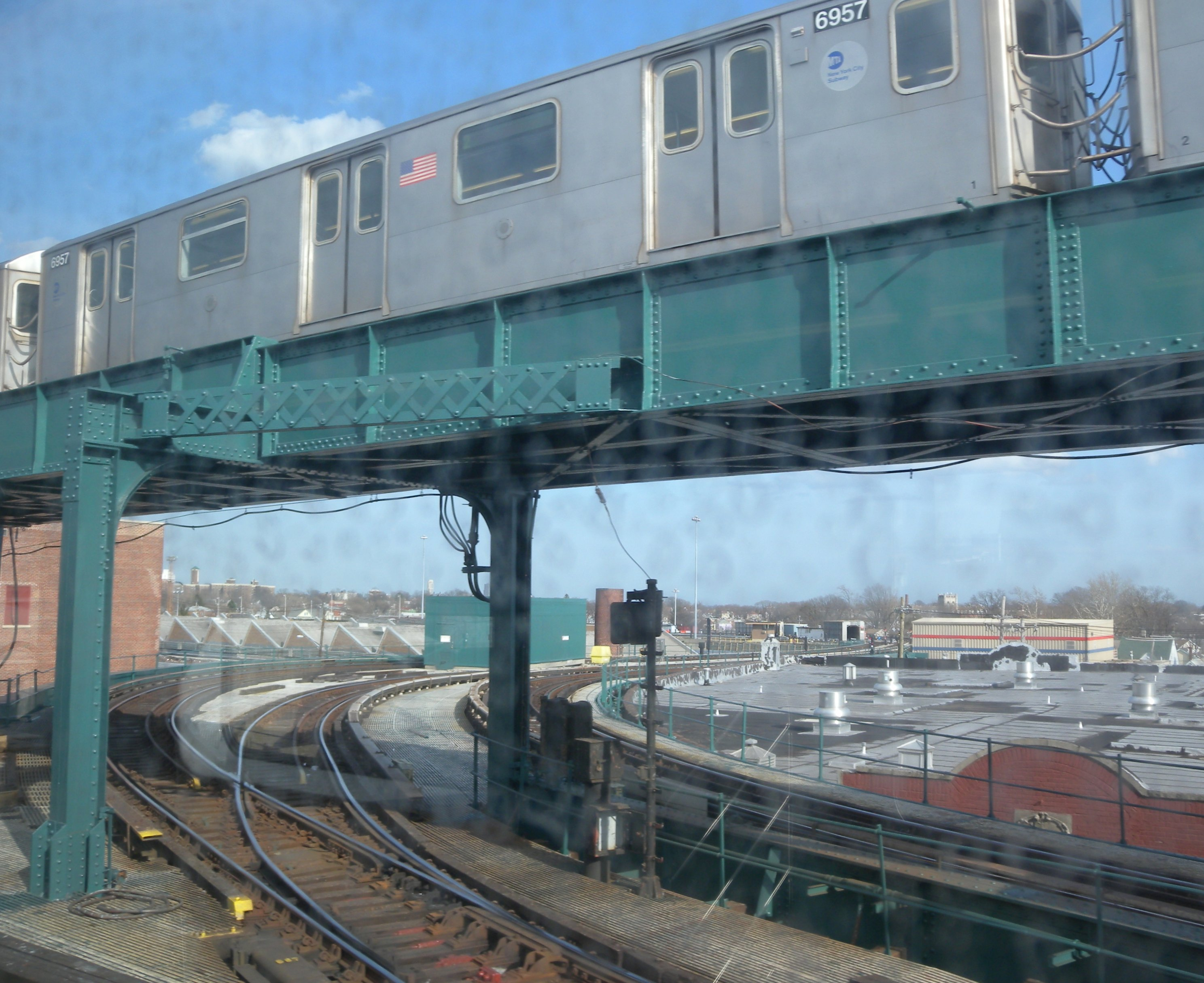 Looking east through dirty window from inside a southbound car, along track into 239th Street Yard, as northbound train flies over, on a mostly sunny afternoon.